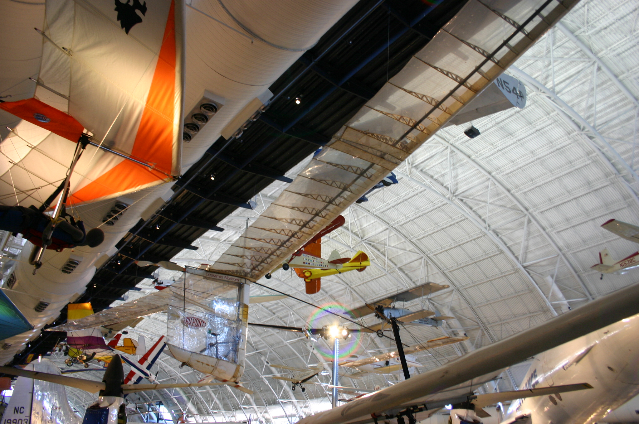 Gossamer Albatross at the Steven F. Udvar-Hazy Center in Dulles, VA.